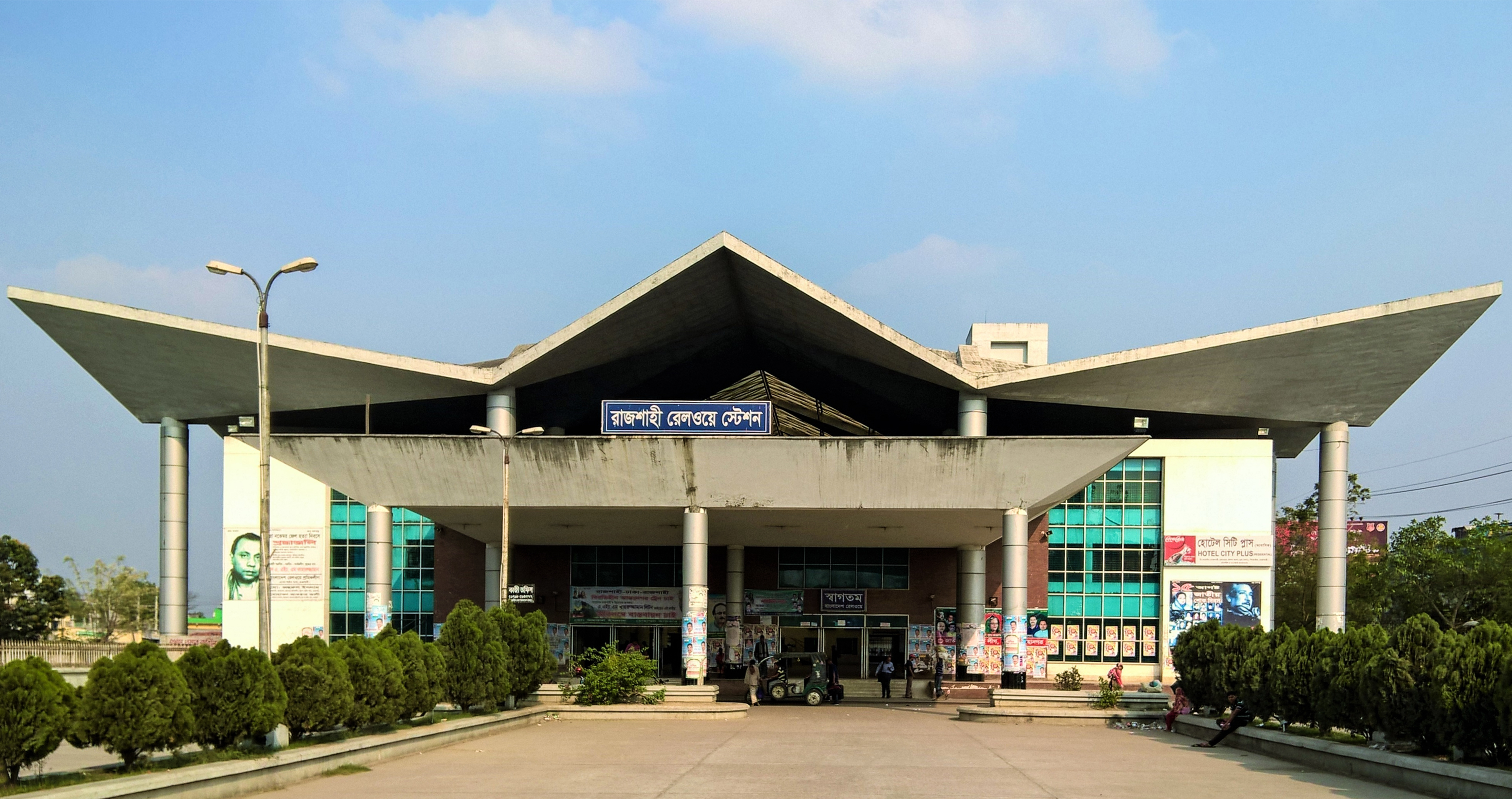 Rajshahi Railway Station is one of the modern structural building in bangladesh. It has total 5 platform. 3 storied building consists main platform, mosque and a residential hotel.